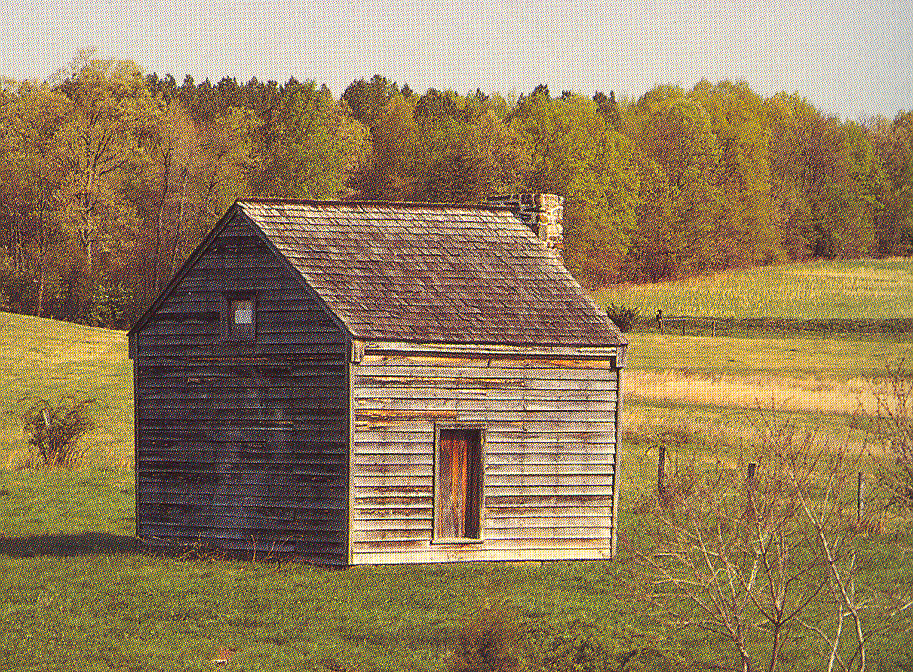 Connor-Sweeney Cabin